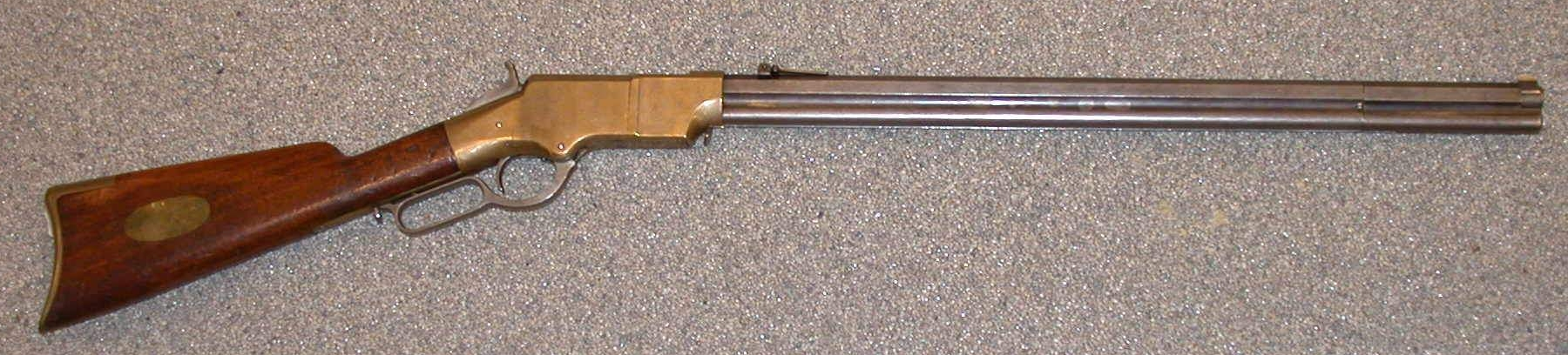 Henry Rifle 1860